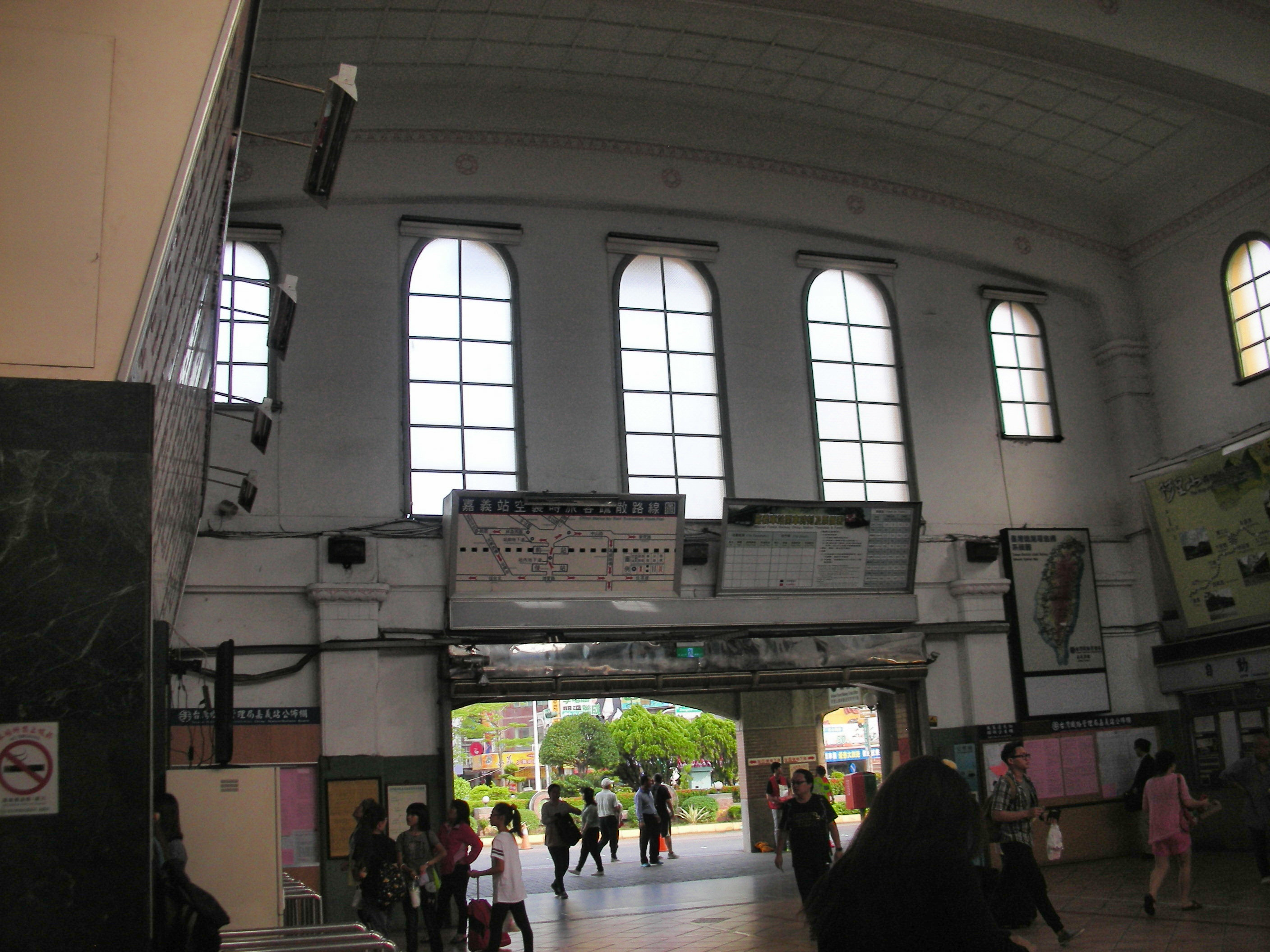 嘉義車站 大廳 Chiayi Station Lobby